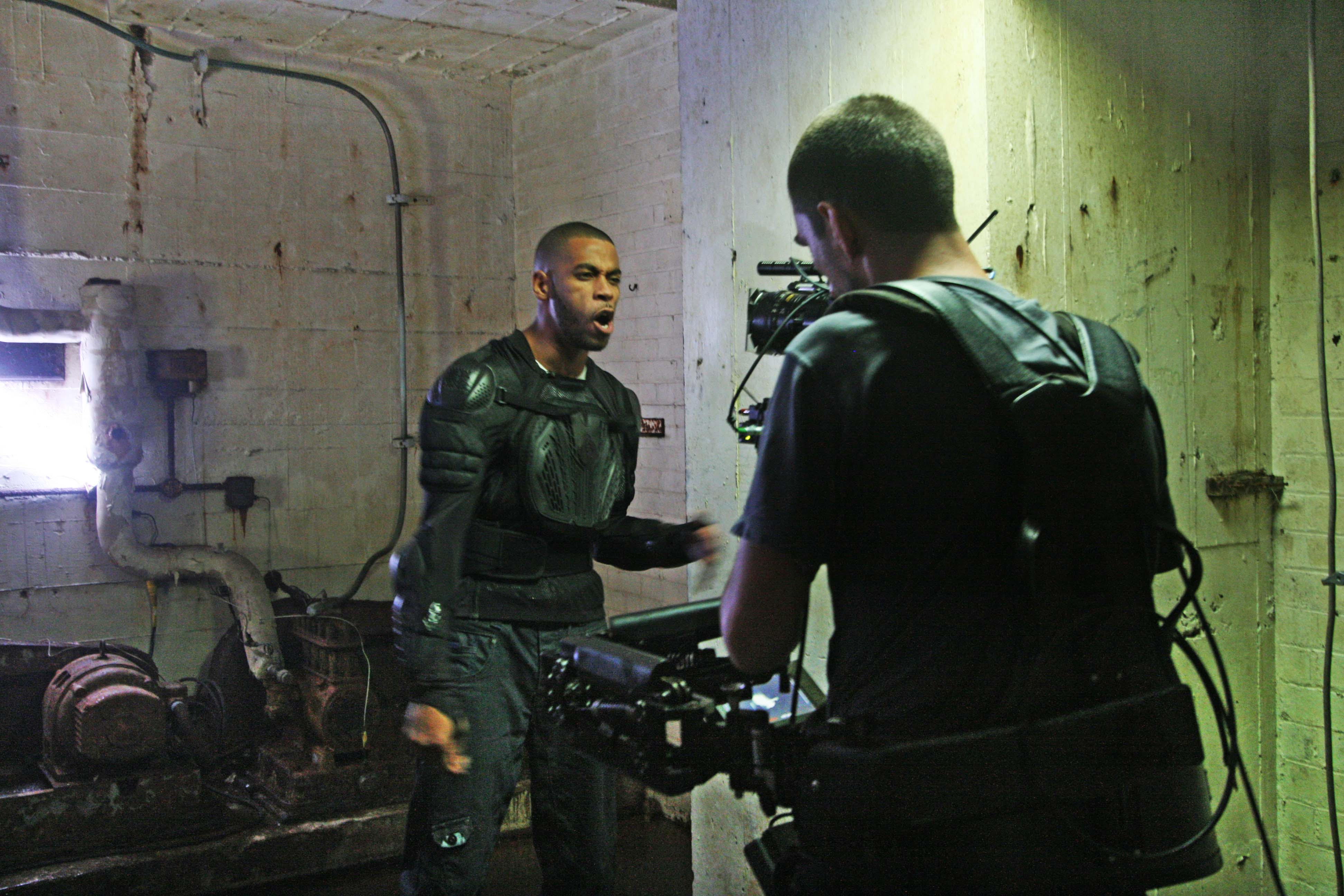 Filming Oi Wot U Lookin' At? at the Paddock bunker in Brook Road, London NW2